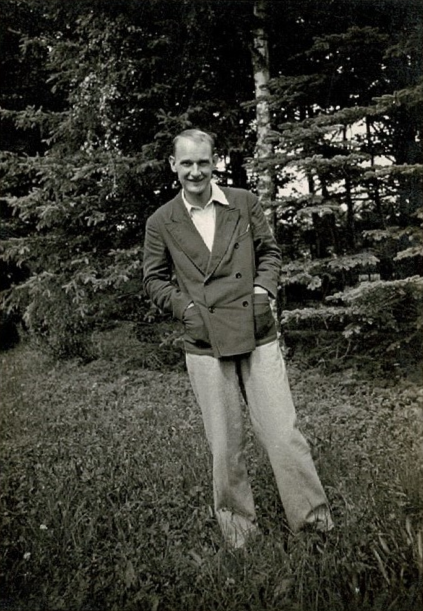 Walther Jockisch (1907–1970) made his doctorate in 1930 at University of Frankfurt am Main. Initially he worked as a German teacher. Due to his work at progressive Schule am Meer on the East-Frisian island Juist where he was involved in the stage play based on Shakespeare initiated by the boarding school's principal Martin Luserke (1889–1968) he later assisted Walter Felsenstein (1901–1975) and Oskar Wälterlin (1895–1961) in Frankfurt's opera house. After the end of WWII he was stage-managing in Darmstadt, Stuttgart, Kiel, Hanover, Oberhausen, Heidelberg, Bonn, Berlin, Luzern and Münster.